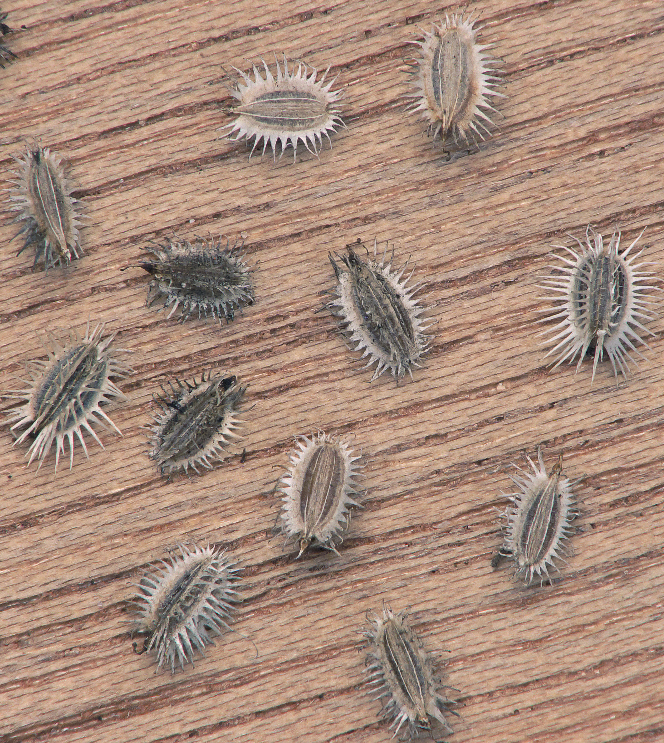 Daucus carota fruits, length 4 mm